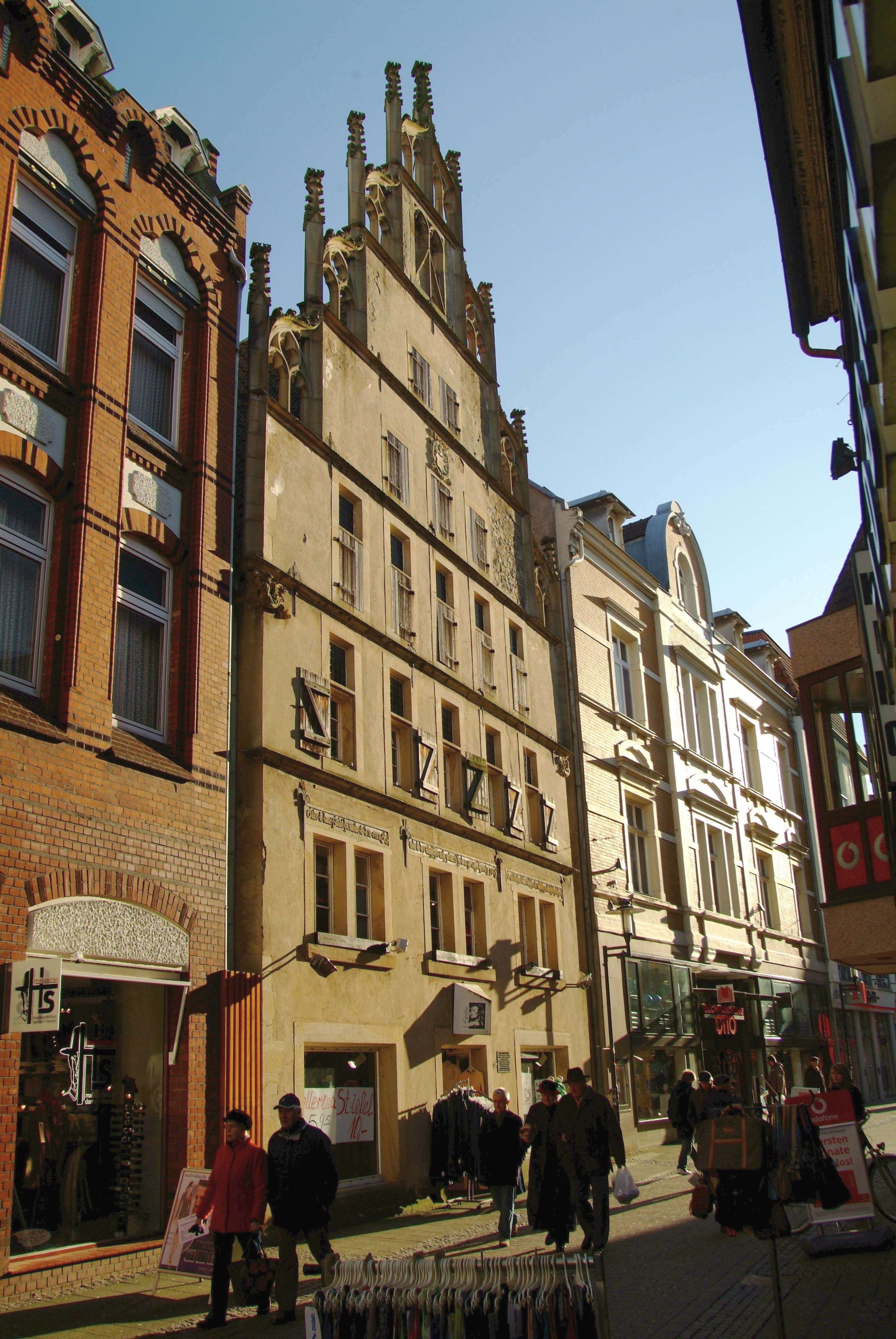 The Cruewell-House in town of Herford, District of Herford, North Rhine-Westphalia, Germany. It was built in 1538 by the Trader Heinrich Cruewell. As Cruewell was the mayor of Herford the builing is called the mayors house (Buergermeisterhaus) as well. The gable of the late gothic period is rated as one of the most beautiful gables in Westfalia. The gable was renovated in 1966.